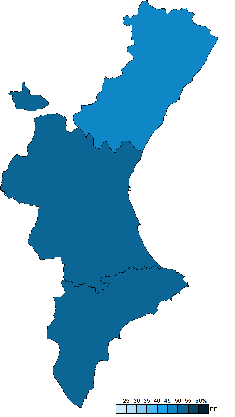 Provincial results for the 2007 Valencian regional election.